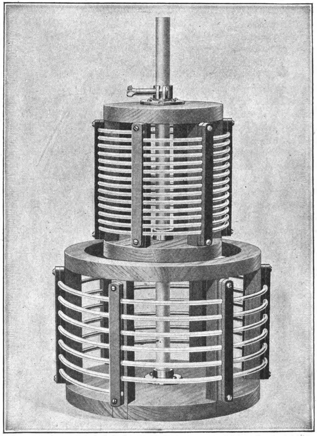 Double helix oscillation transformer for an inductively-coupled spark-gap radio transmitter around 1918. The spark gap and capacitor were connected with clips to the bottom primary coil to make a tuned circuit. When the spark gap triggered, current from the capacitor flowed back and forth through the coil and created damped radio frequency oscillations. The top secondary coil was connected with clips to the antenna and ground. The mutual coupling between the primary and secondary coils was adjusted by moving the secondary up (less coupling) or down (more coupling). The oscillating currents induced in the secondary were radiated as radio waves by the antenna.